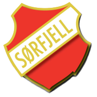 IL Sørfjell logo